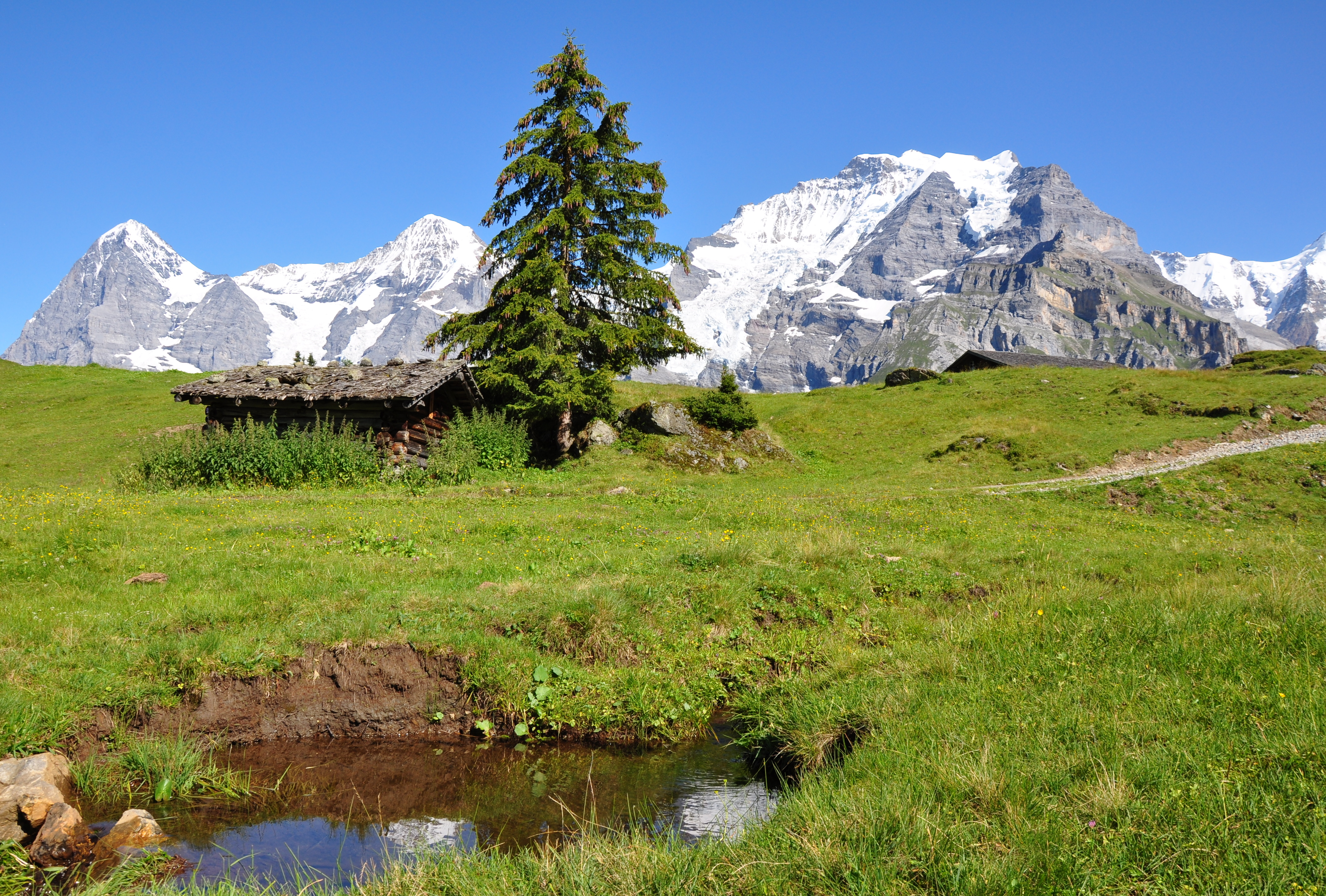 Switzerland, Canton of Bern, Eiger, Mönch and Jungfrau as seen from Grütschalp.